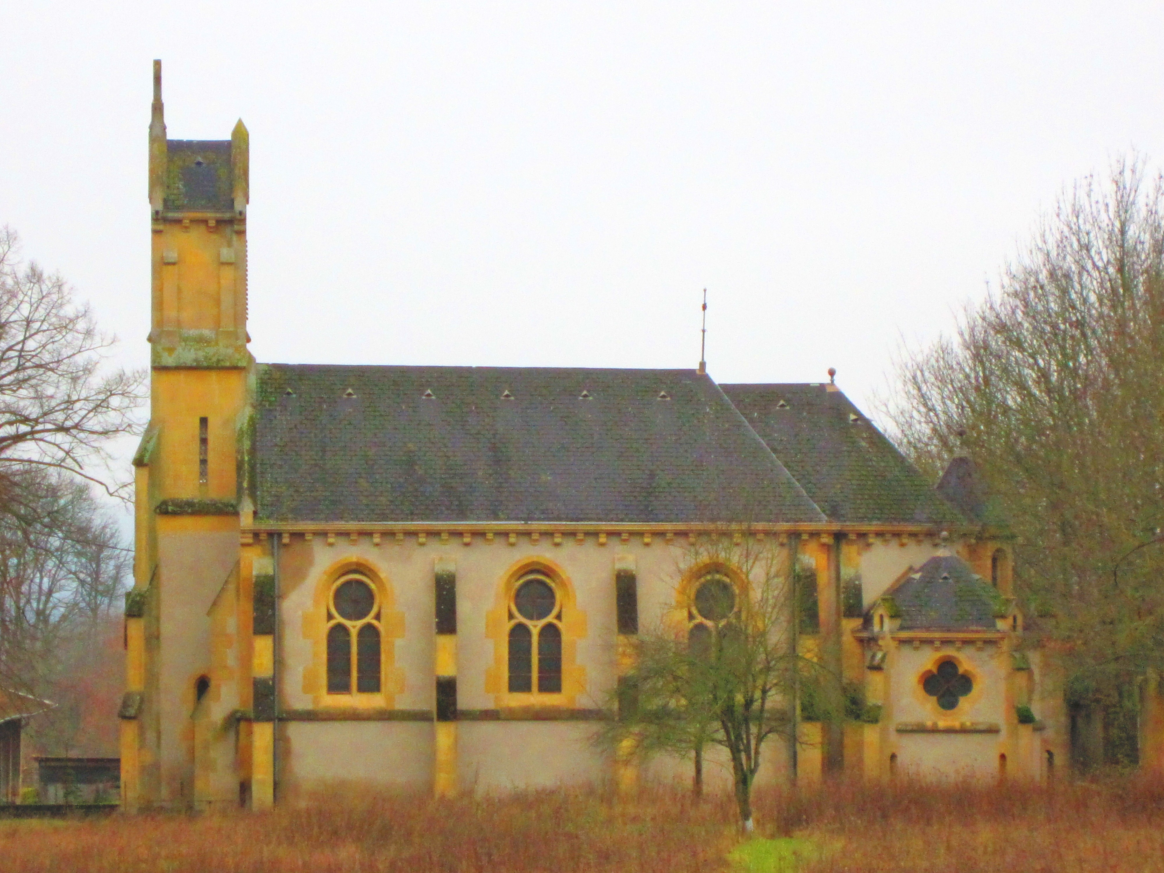 Description chapelle basse bevoye Peltre Date28 December 2011Sourcemon appareil photoAuthorAimelaimePermission(Reusing this file) chapelle basse bevoye Peltre